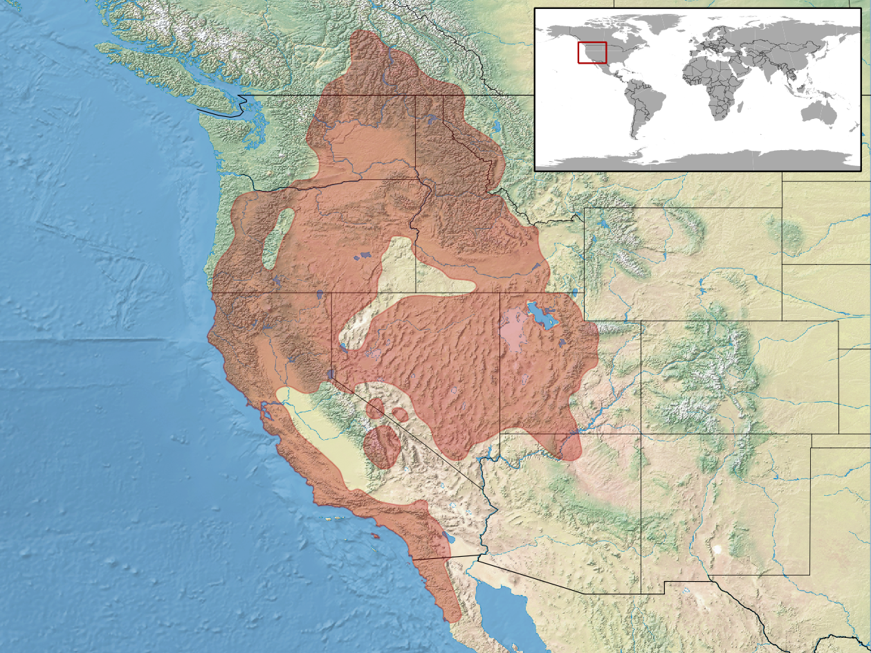 geographic distribution of Plestiodon skiltonianus